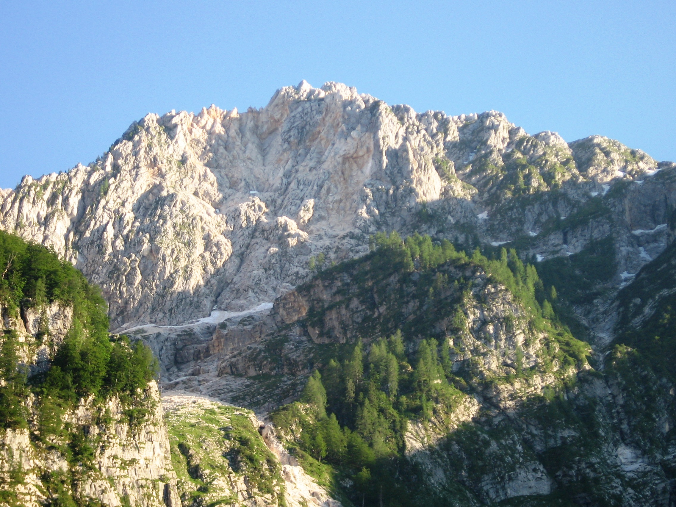 Mount Veliki Lemež (2.041 m) above Lepena Valley in Slovenia